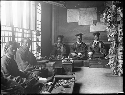 The three magistrates of Shö with clerks on left in their Court Room. Police Court below Potala. The three magistrates, in red overcoats and yellow Tam O'Shanter caps, with their clerks. Court records fastened to walls and pillars. Bell's Diary entry for 26th July 1921: "I visited the Sho Le-Kung today (photo quarter plate). The courtroom resembled in the main that of the Mi-pon. There are three magistrates, known as the Sho-pa. Usually two are trung-khar and one a tse-trung, but at [?] all three are trung-khor. This courtroom, the one which I photographed, is up stairs. Down below in another place close to, is a verandah in which those accused of the more heinous offences are tried. Here are kept the whips and finger-crushing implements of the same kind as those used by the Mi-pons. Nearby is the prison with two separate rooms, both of which one sees from above. One, for those convicted of lighter offences, was photoed by me some months ago. it gets plenty of light and air from above. The other for heinous offenders, is dark, but gets much more light and air than the prison administered by the Mi-pons. Looking down through the grating of the Sho prison for heinous offenders, I could see though dimly, the prisoners inside" [Vol XI, pp. 58-59]